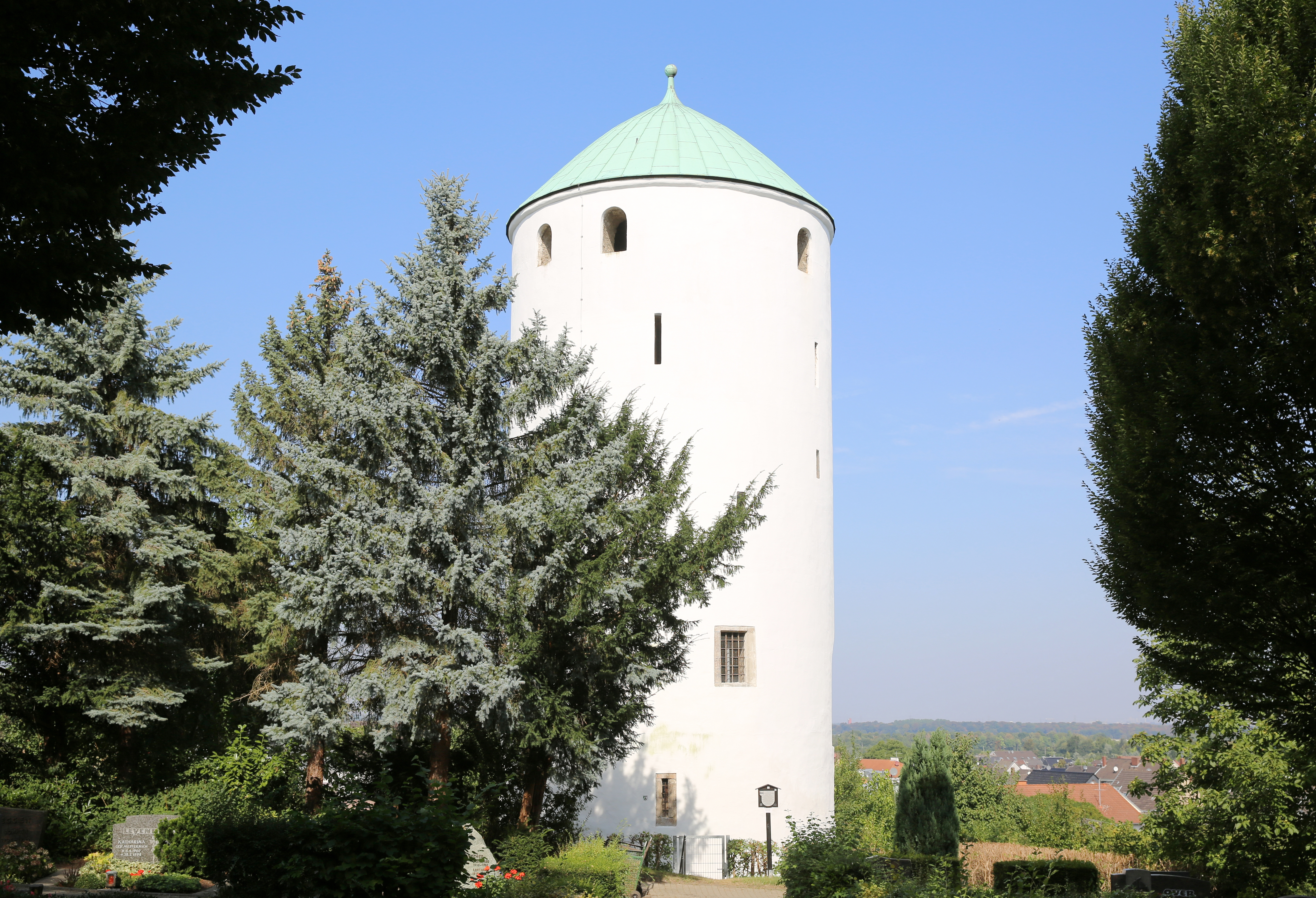 The middle ages residence tower (named „Witchtower of Walberberg“ and his hillside background